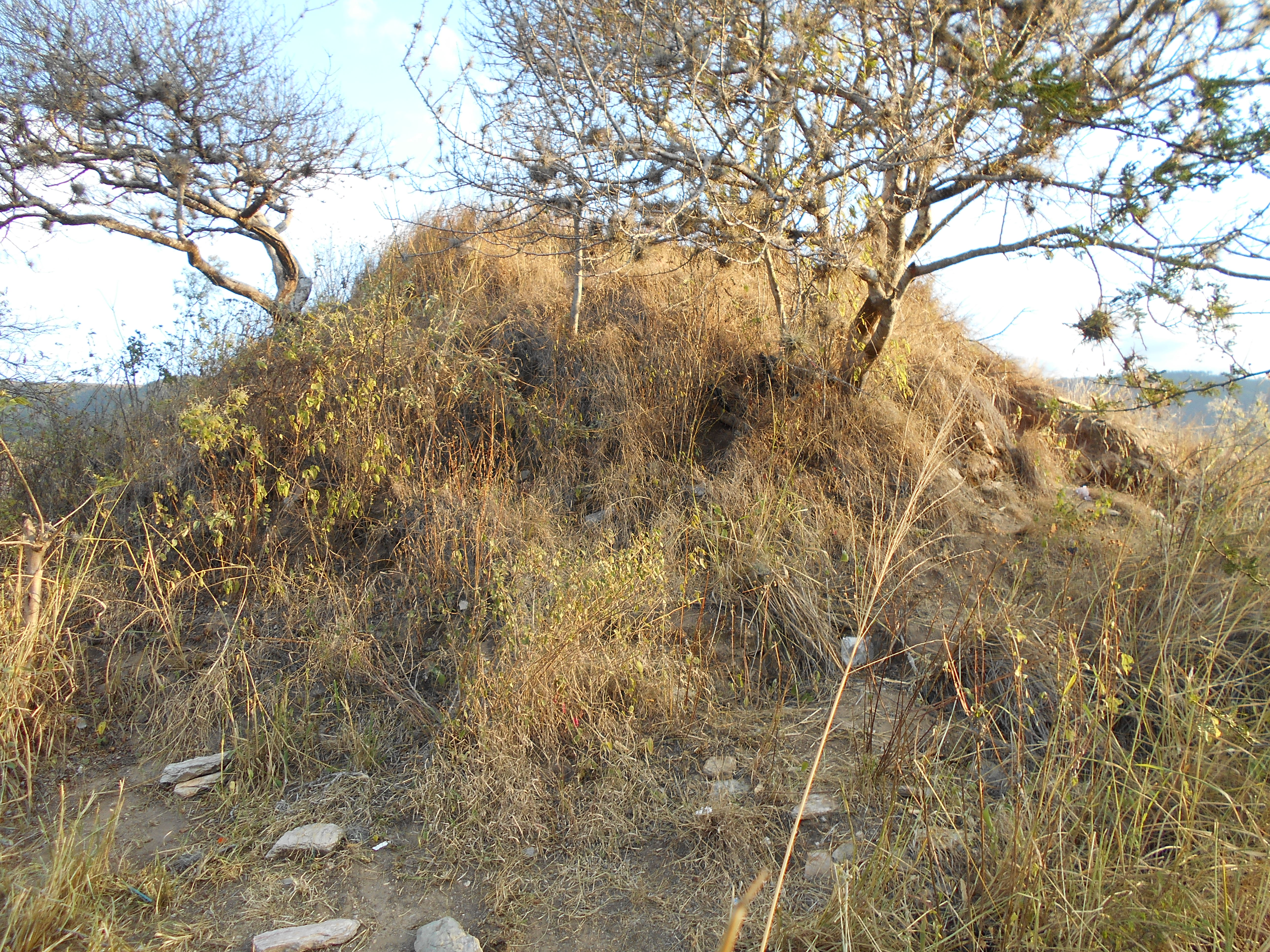 Postclassic Maya ruin of Chutixtiox, near Los Trapichitos, Sacapulas, El Quiché, Guatemala.